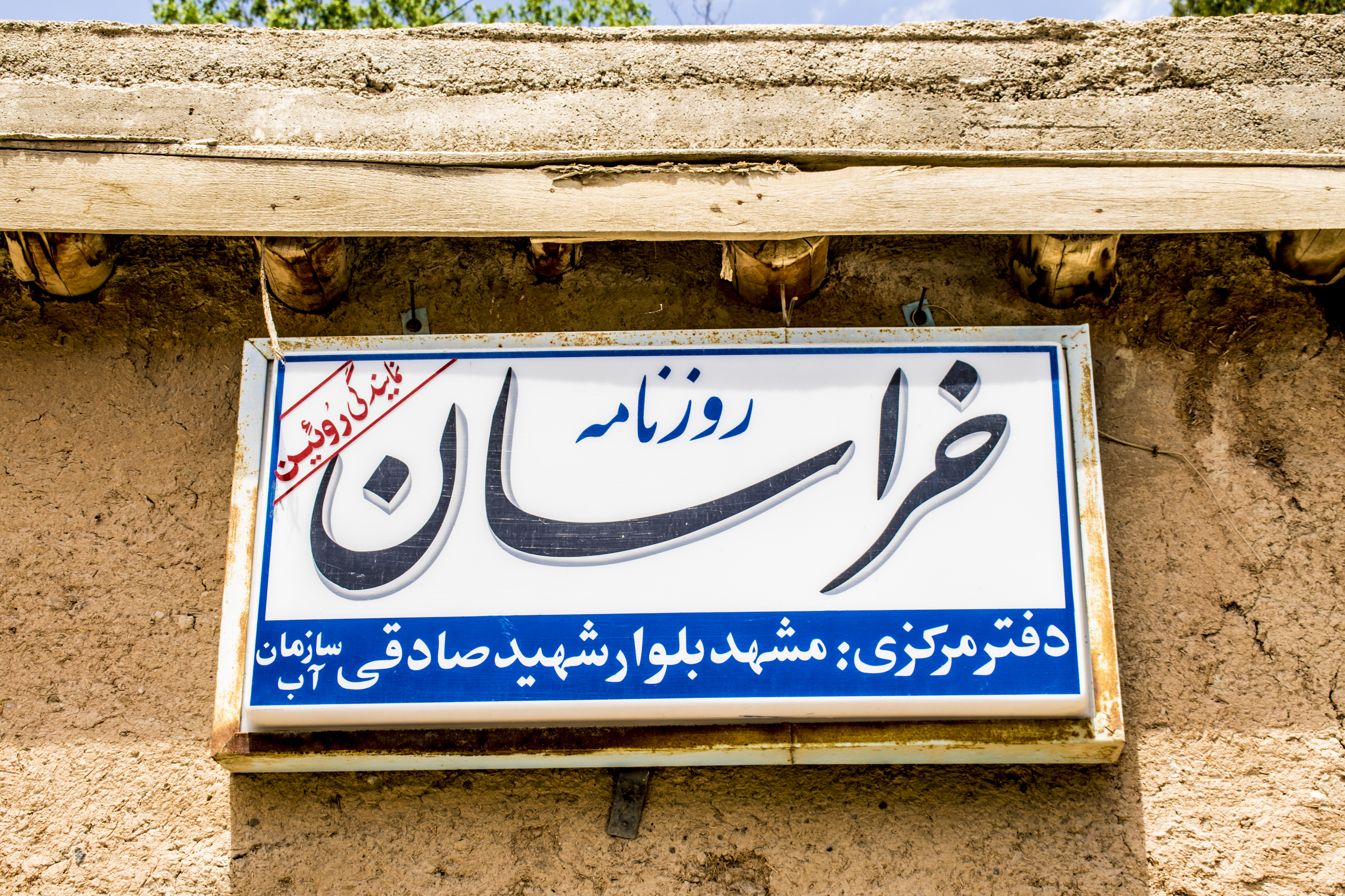 Historical contexture of the ru'in village